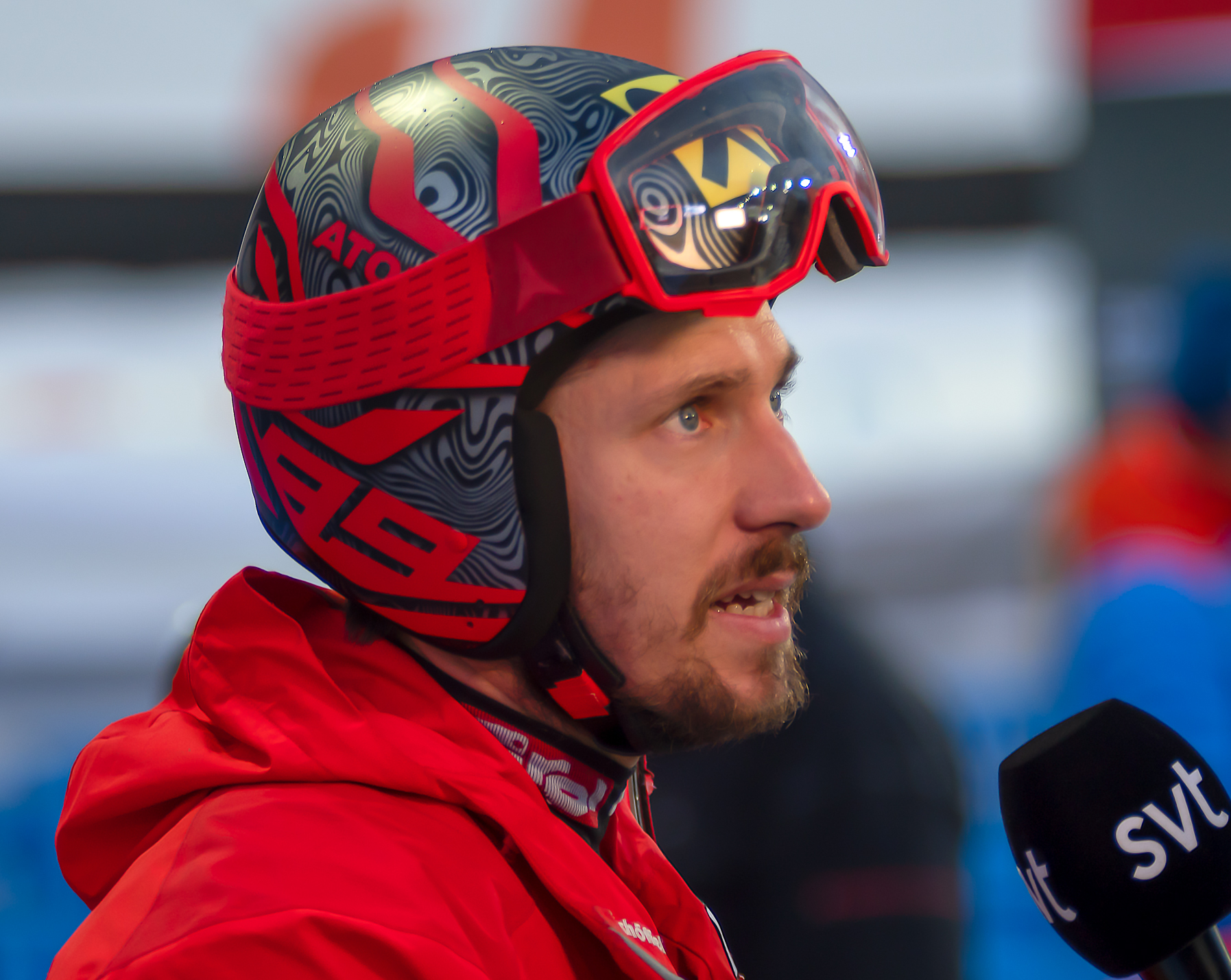 FIS Alpine Skiing World Cup in Stockholm 2019